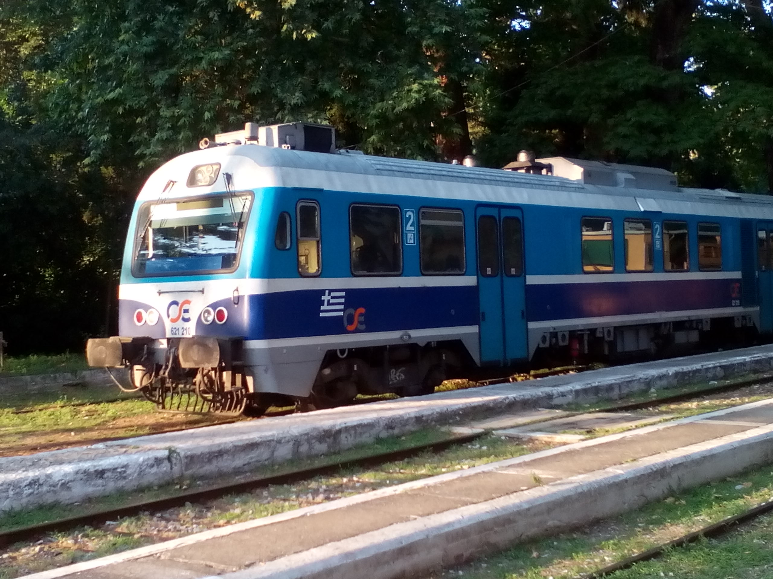 While I was waiting for the train to Florina, I found this little guy. It is going to Thessaloniki. Sadly, this look is extremely rare, because trains are usually vandalised by Greek teens, who cover them with grafiti